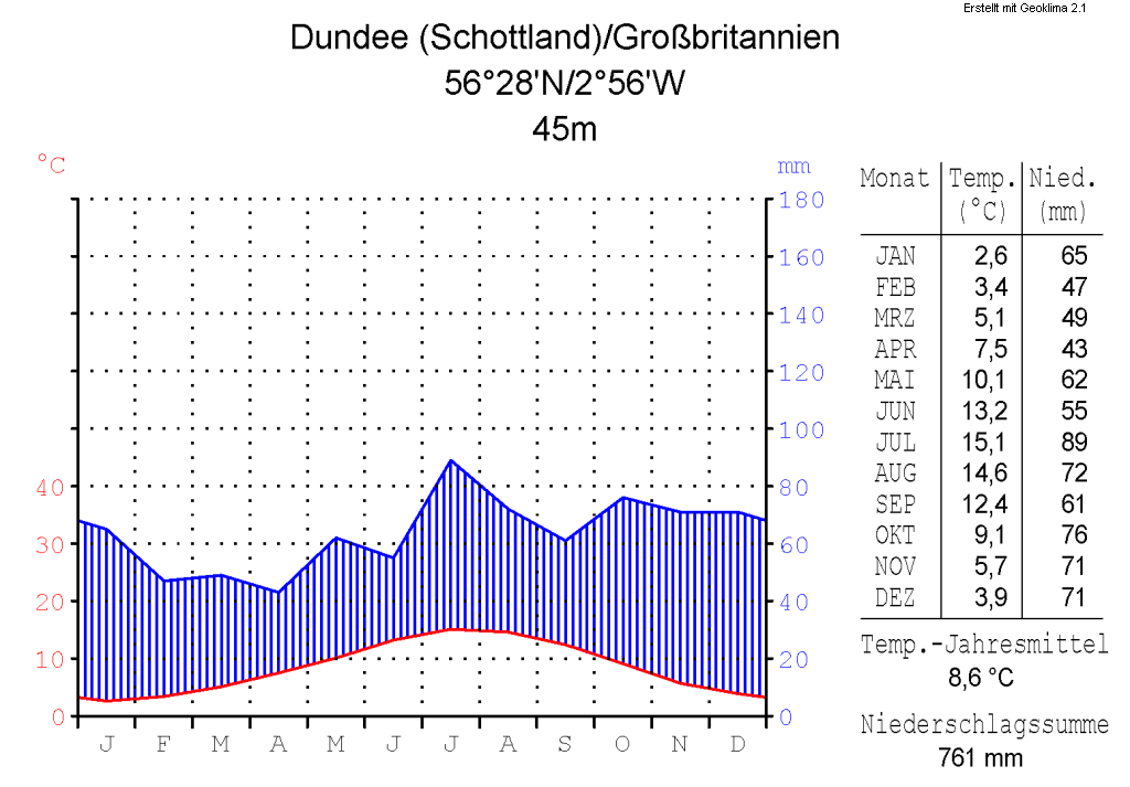 climate chart in the format by Walter and Lieth, metric, °Celsisus and millimeters, made with Geoklima 2.1